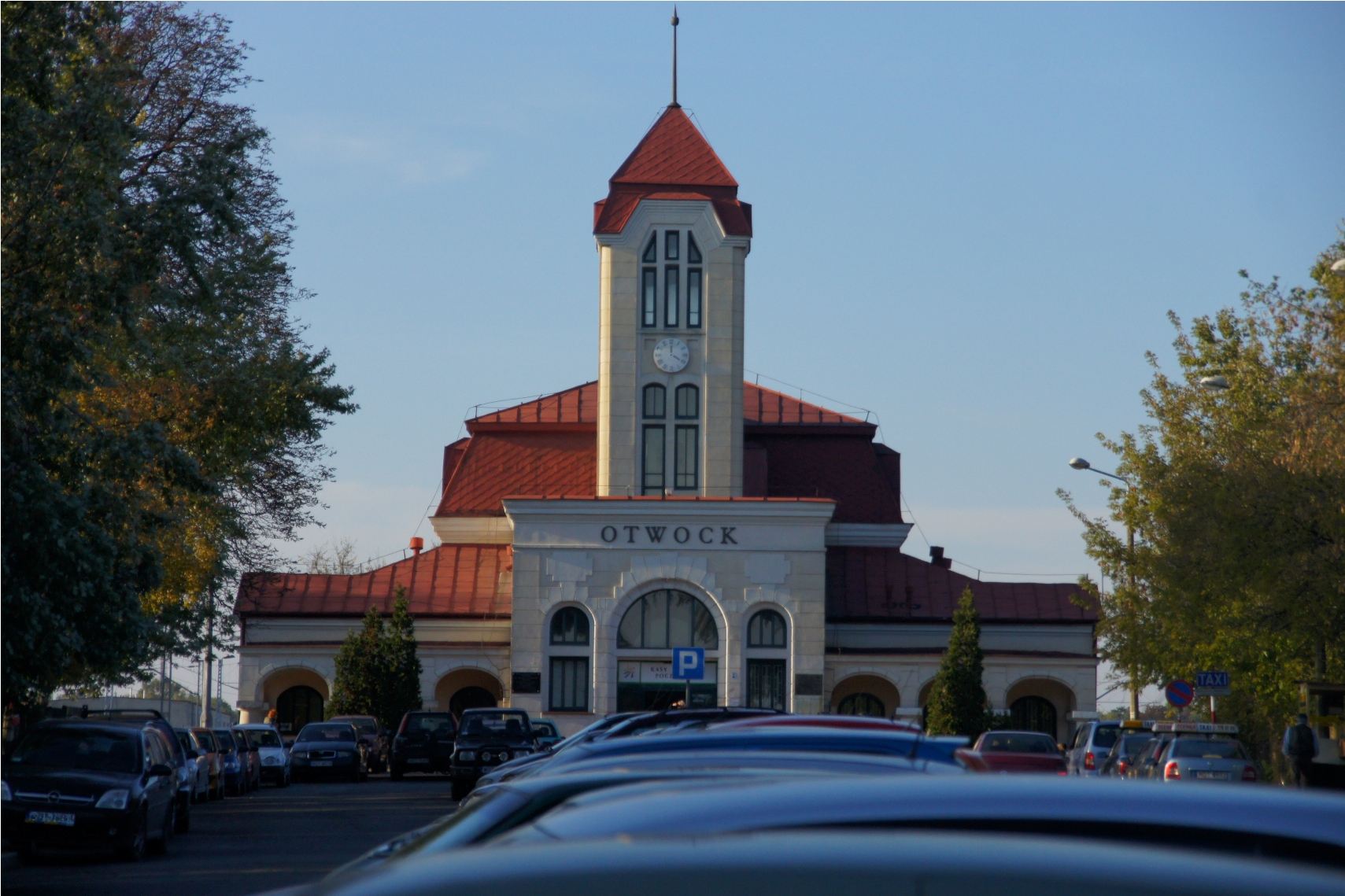 Otwock railway station - view from the parking lot toward the main entrance.